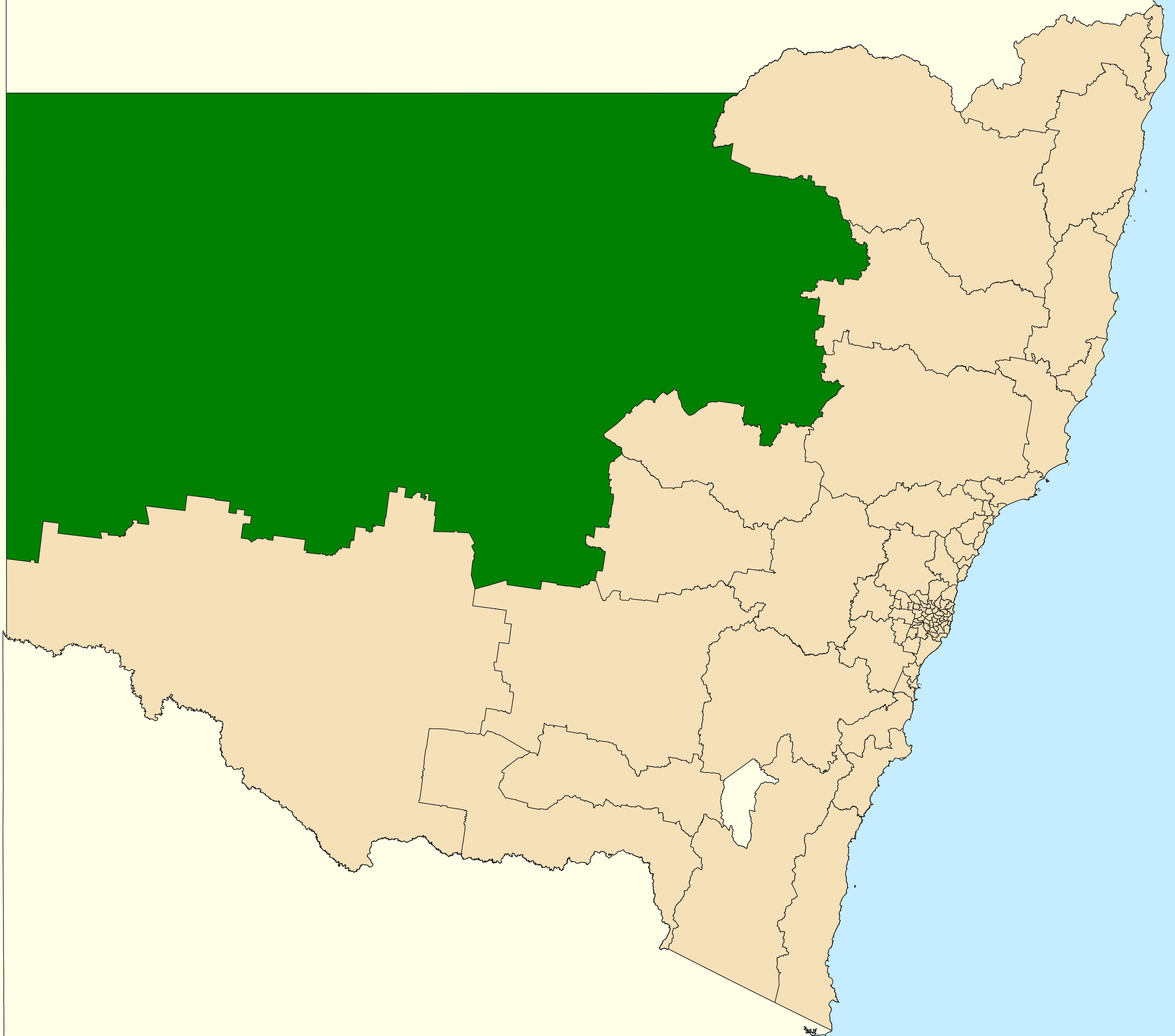 Location of the state electoral district of Barwon (dark green) in New South Wales as of the 2019 New South Wales state election. Incorporates or developed using Administrative Boundaries ©PSMA Australia Limited licensed by the Commonwealth of Australia under Creative Commons Attribution 4.0 International licence (CC BY 4.0).